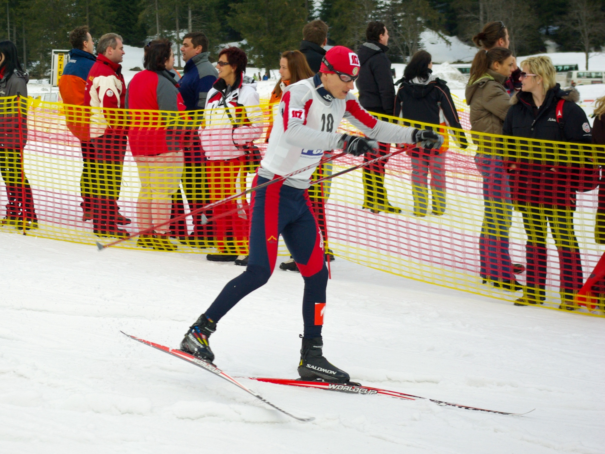 Czech nordic combined skier Pavel Churavý during the World Cup B sprint event in Eisenerz (Austria) on 9 March 2008.